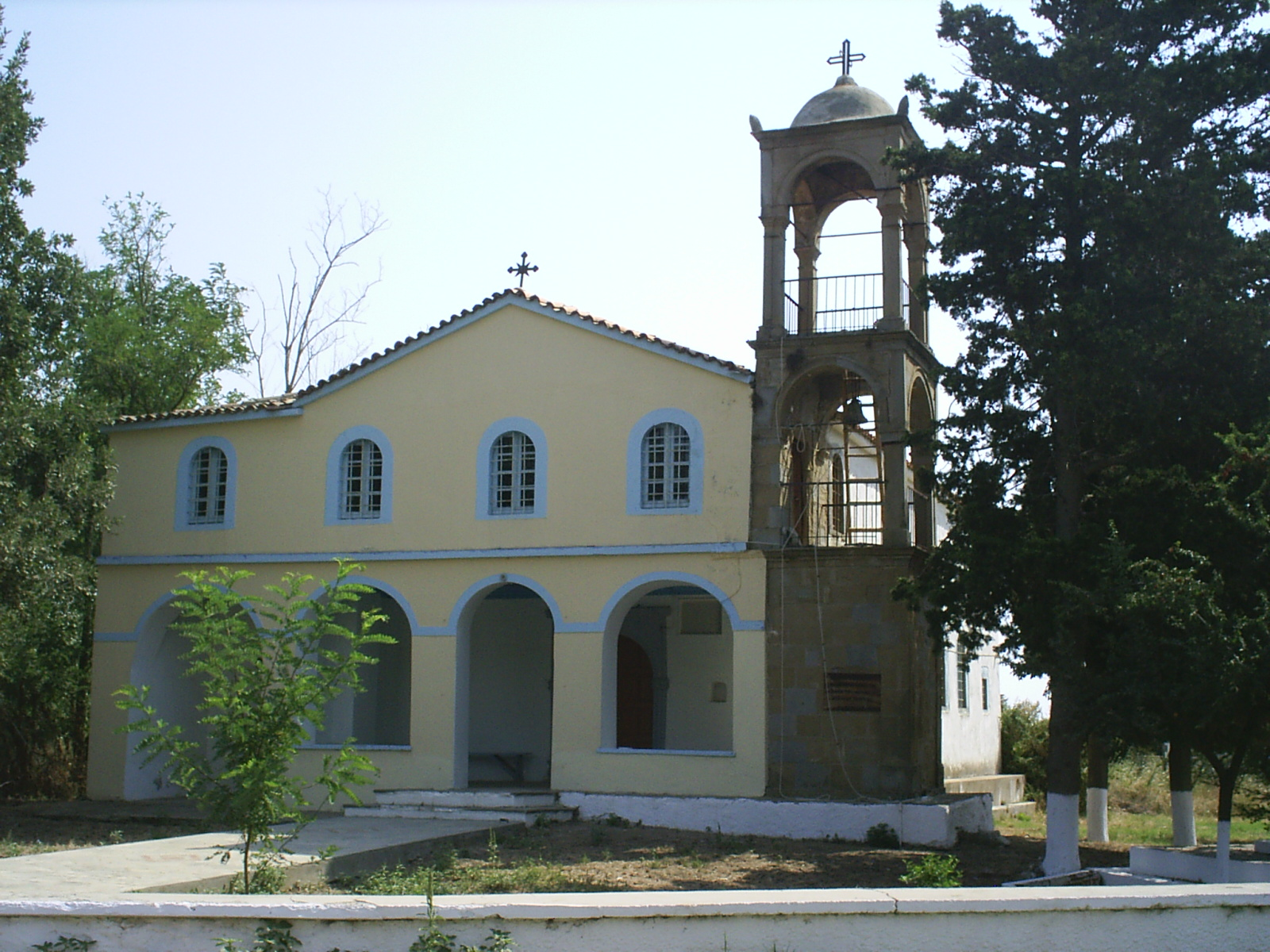 Church Agiou Ioanni Prodromou in Neo Pedino (Greek, Modern: Παλαιό Πεδινό) Palaio Pedino. Neo Pedino (Greek, Modern: Παλαιό Πεδινό), is a village on the Greek island of Lemnos, which is located northeast of Myrina. THe settlement of Palaio Pedino had a population in 2001. Its former name was Pesperago which was mentioned in the 14th century